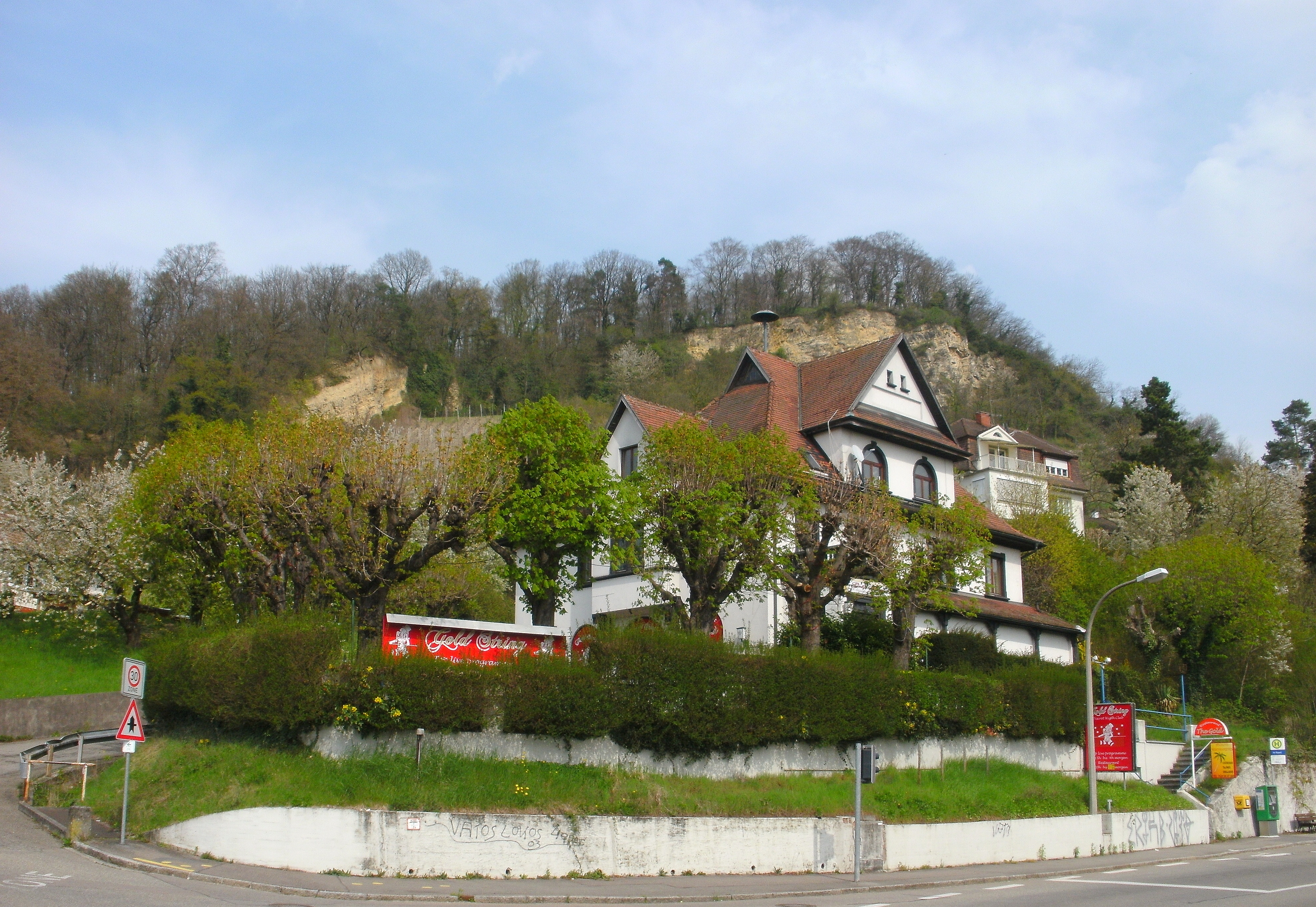 Former vineyard house ("Rebhaus") below the rock "Hornfelsen" in Grenzach-Wyhlen, Germany, near the German-Swiss border crossing. Now used as a nightclub.